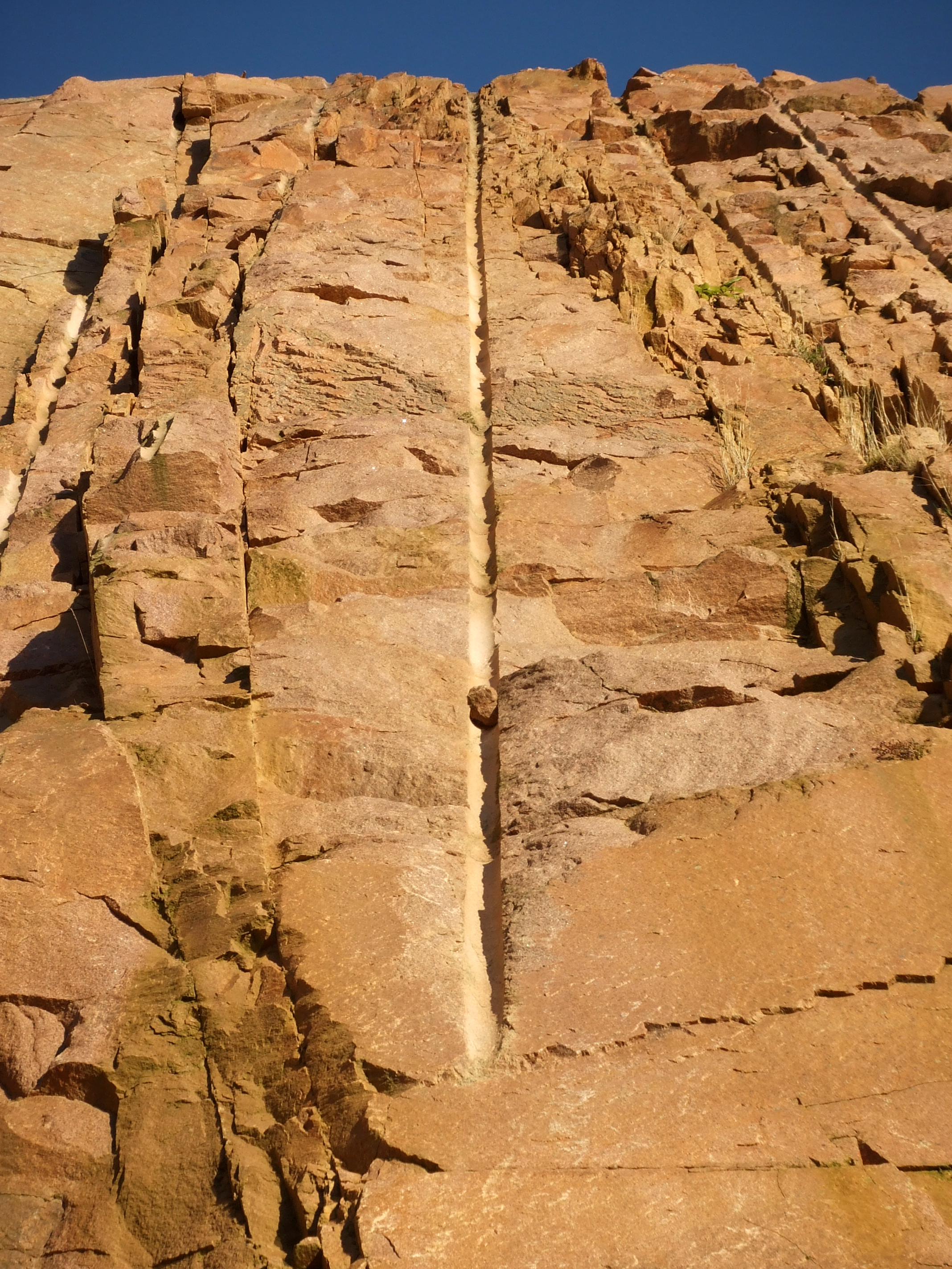 Close up of drilled blast-hole at Rixö abandoned granite quarry, Lysekil Municipality, Sweden. Photo is taken just before sunset when the light saturates the color of the rocks. This kind of granite is full of large crystals that reflects the light and any part of these rocks sparkle in the sun.